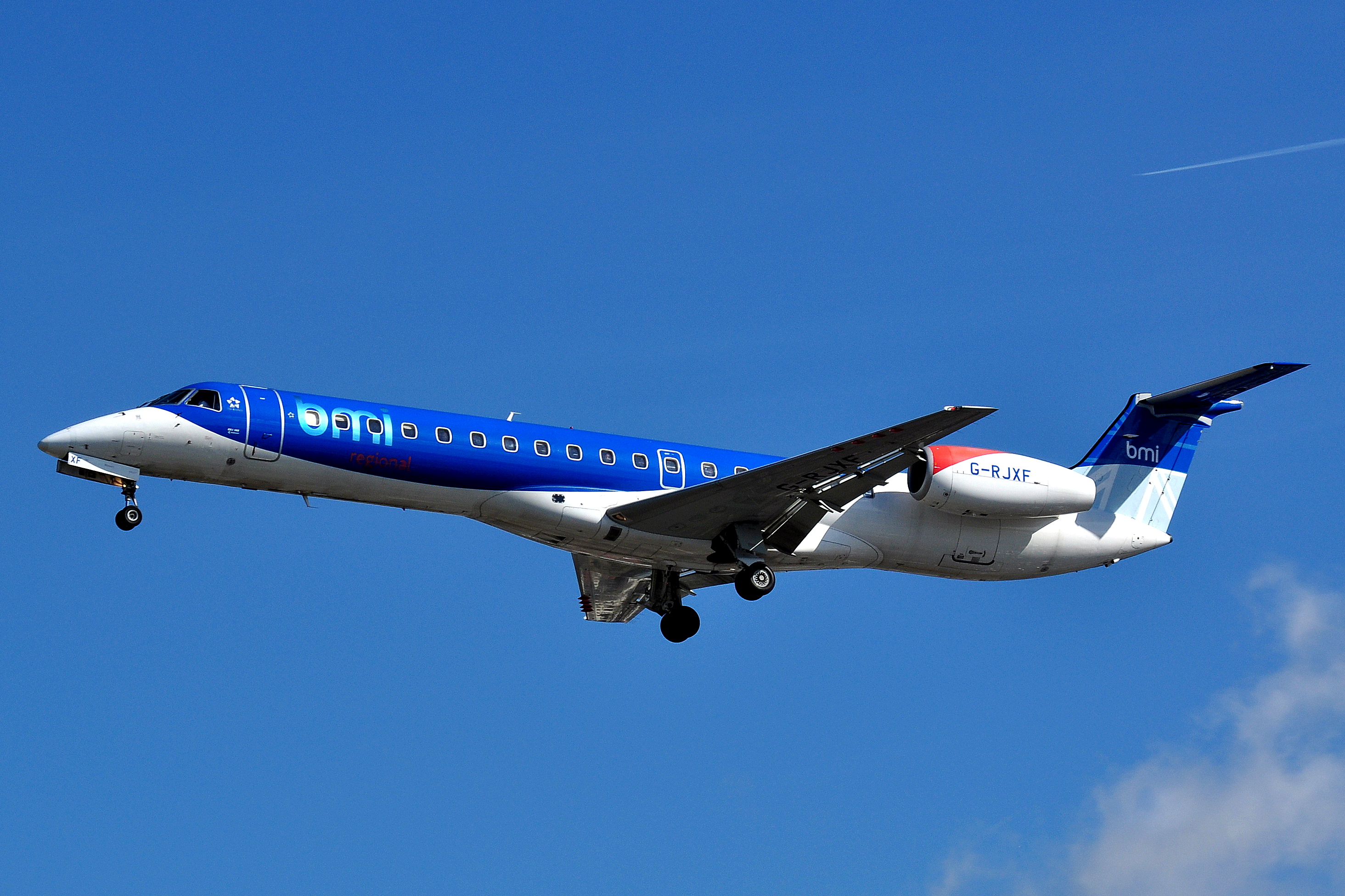 Model: Embraer ERJ 145 Airline: BMI Regional Registration number: G-RJXG